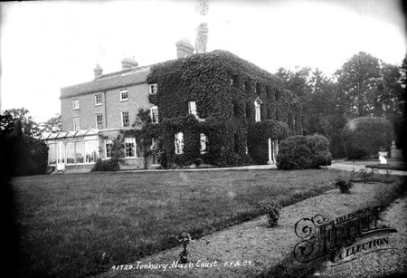 Nash court when it was a school